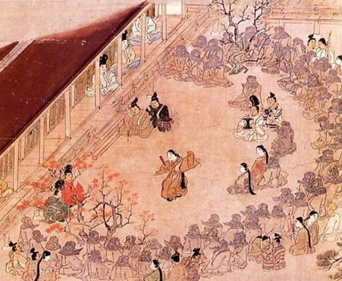 Honen shonin eden - Chion-in version - Dance in a bouddhist temple